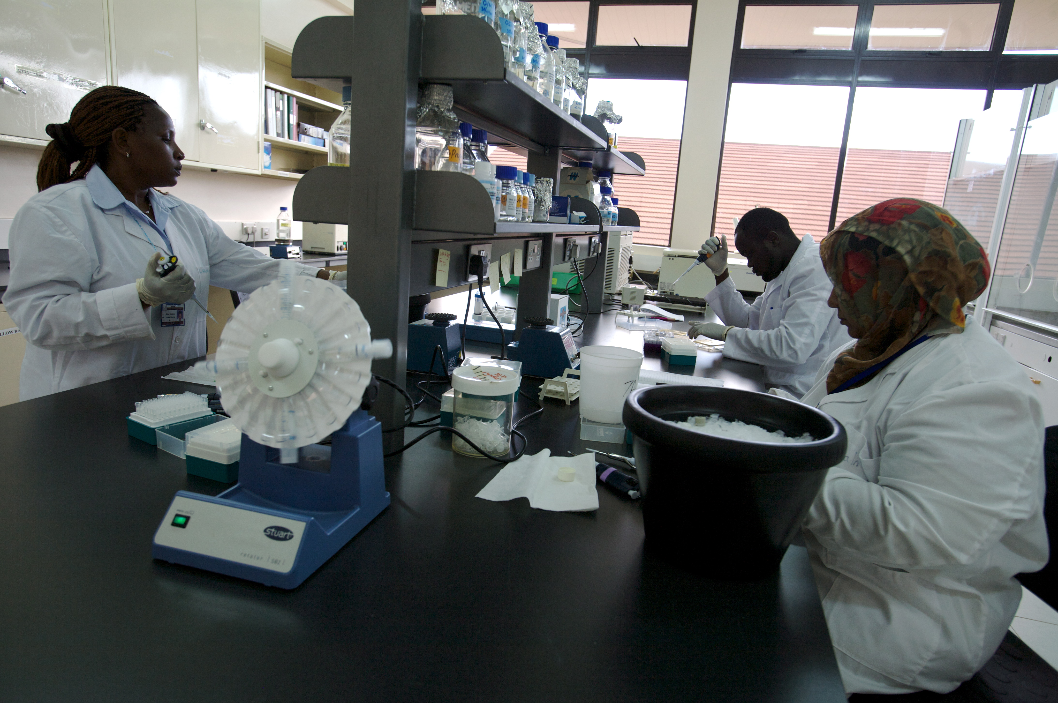 Scientists work in a laboratory at the International Livestock Research Institute in Nairobi, Kenya. Australia provides funding to the Institute through the Australian Centre for International Agricultural Research (ACIAR), to improve African food security.